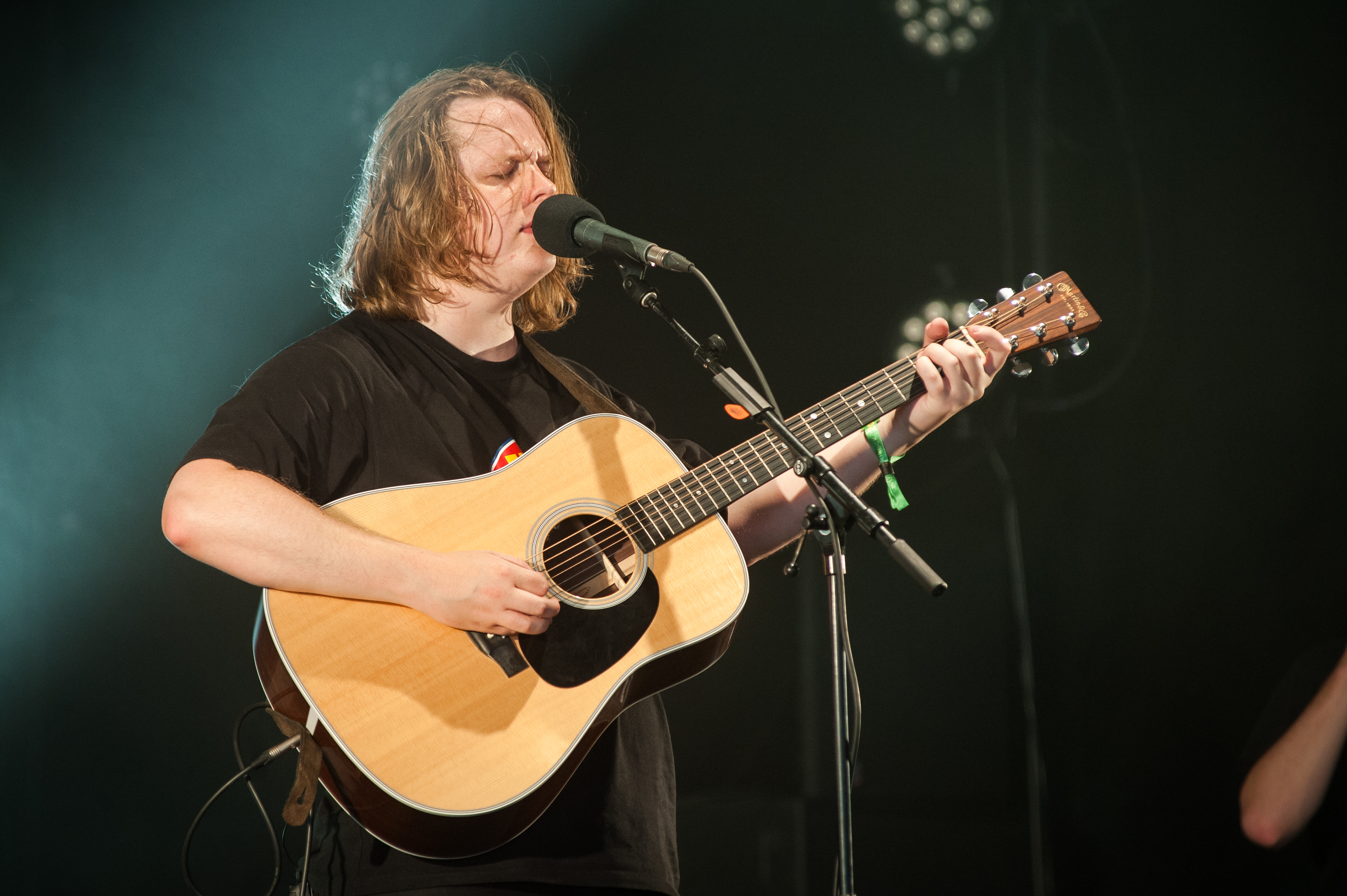 Scottish singer-songwriter Lewis Capaldi performing at the 2018 Ilosaarirock festival in Joensuu, Finland.